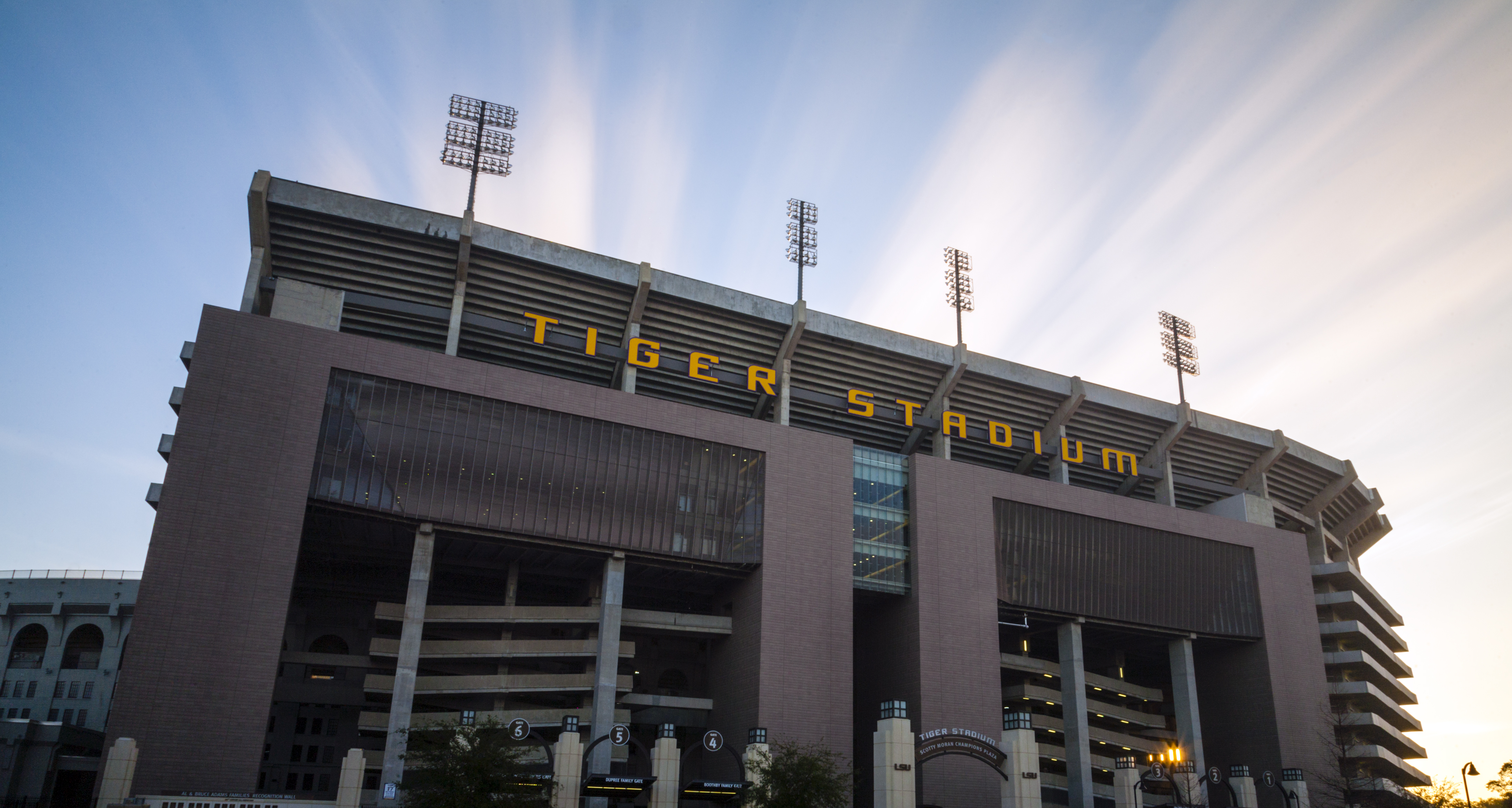 Sunrise over LSU's famous Tiger Stadium in Baton Rouge.